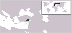 Cappadocia is 188 BC, a modification of Image:LocationTurkey.png borders based on [1]